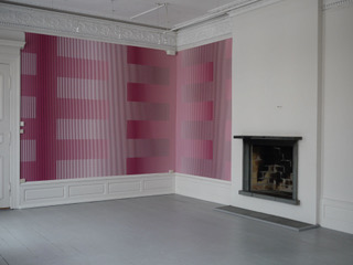 Lundebrekke_Flux: skal krediteres Edith Lundebrekke